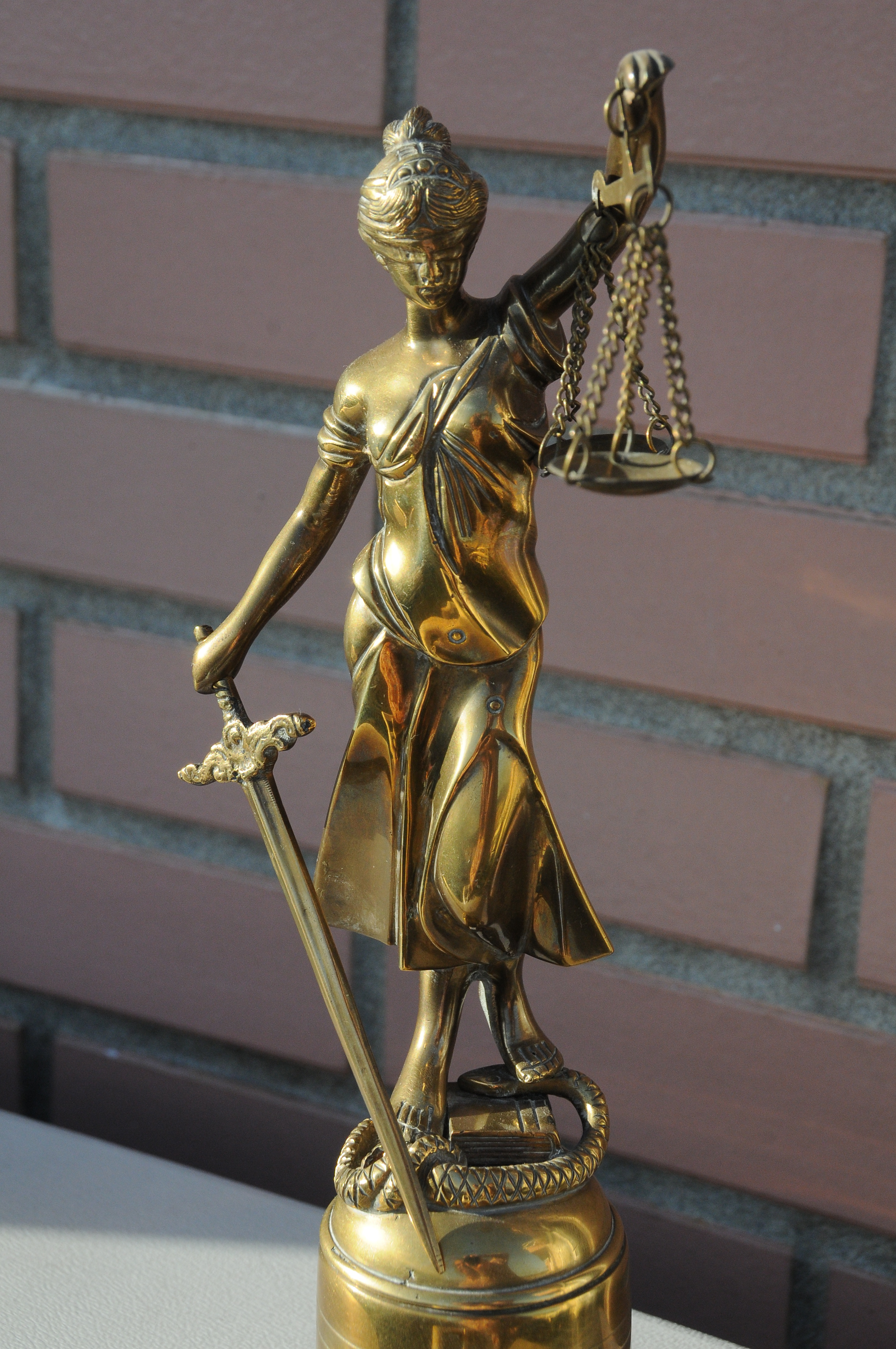 Statue of Justice in Portugal